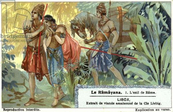 5226278 Scene from the Hindu epic poem the Ramayana: the exile of Rama (chromolitho) by European School, (20th century); Private Collection; ( .: Scene from the Hindu epic poem the Ramayana: the exile of Rama. Liebig card, early 20th century.); © Look and Learn; European, it is possible that some works by this artist may be protected by third party rights in some territories.